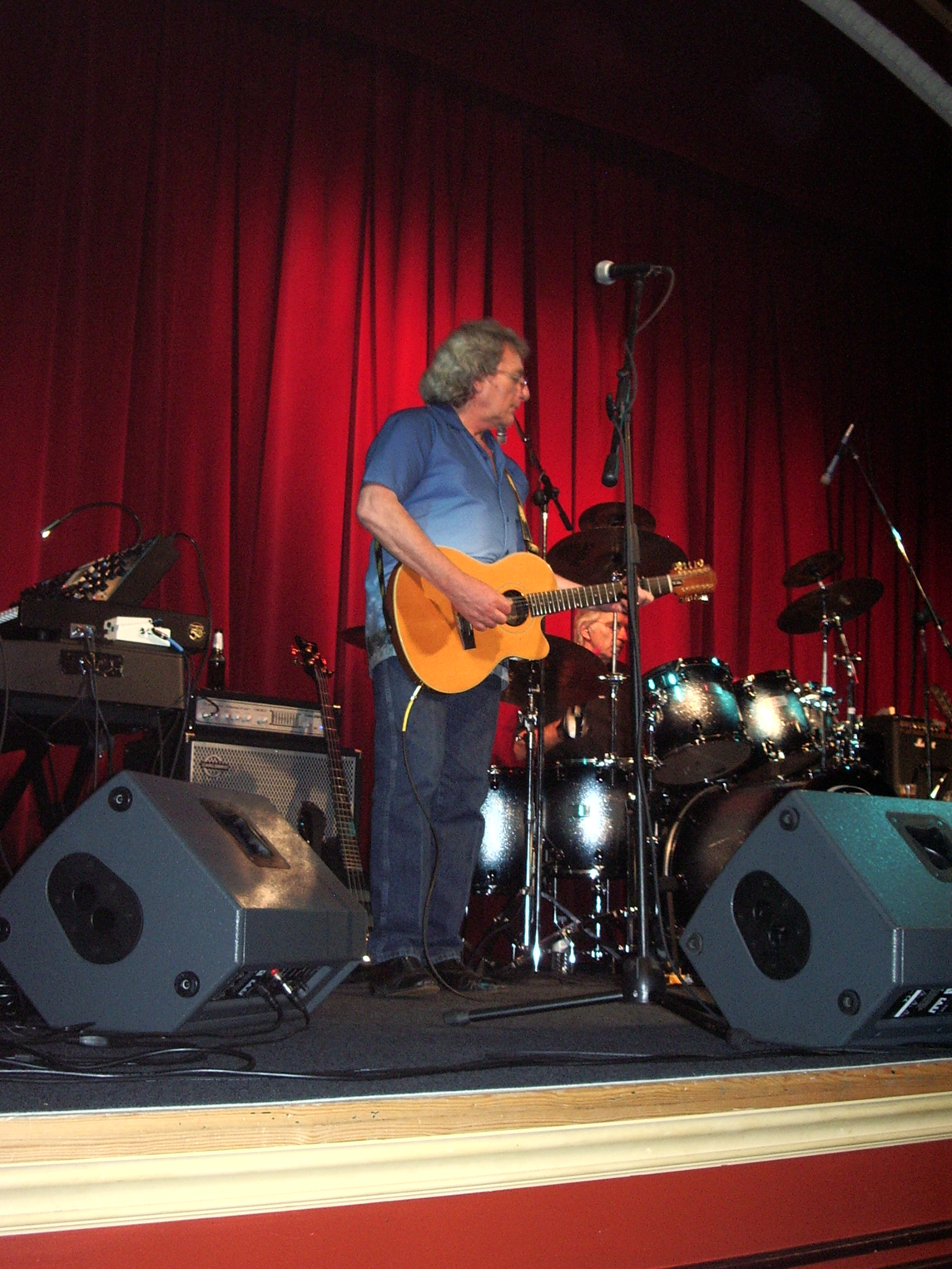 Chas Cronk on stage with Strawbs on 7th June 2008 at The Pavillion, Hailsham, East Sussex, England